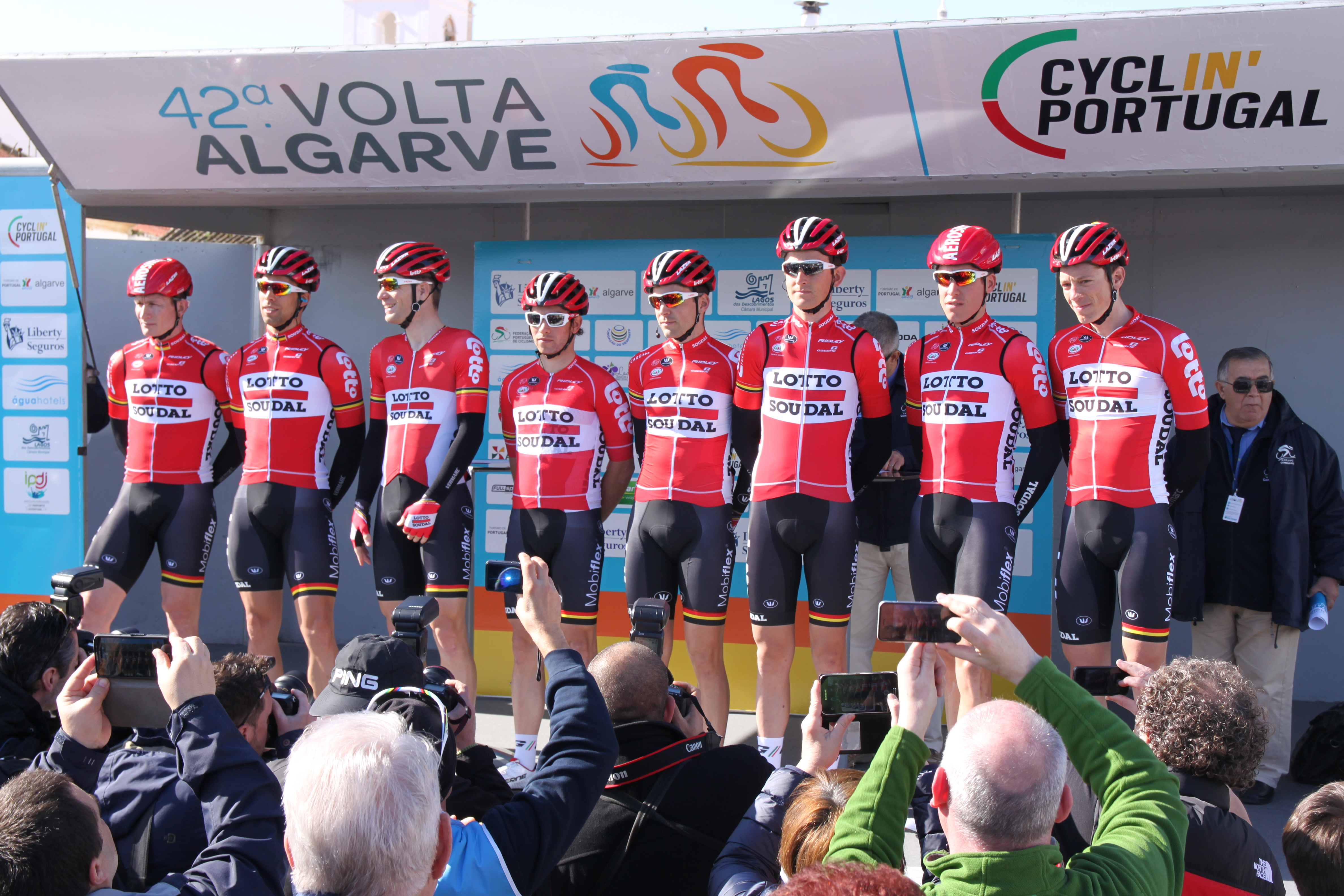 Portugal - Algarve - Lagos - 2016 Volta ao Algarve - Cycle team. Depicted team: Lotto-Soudal